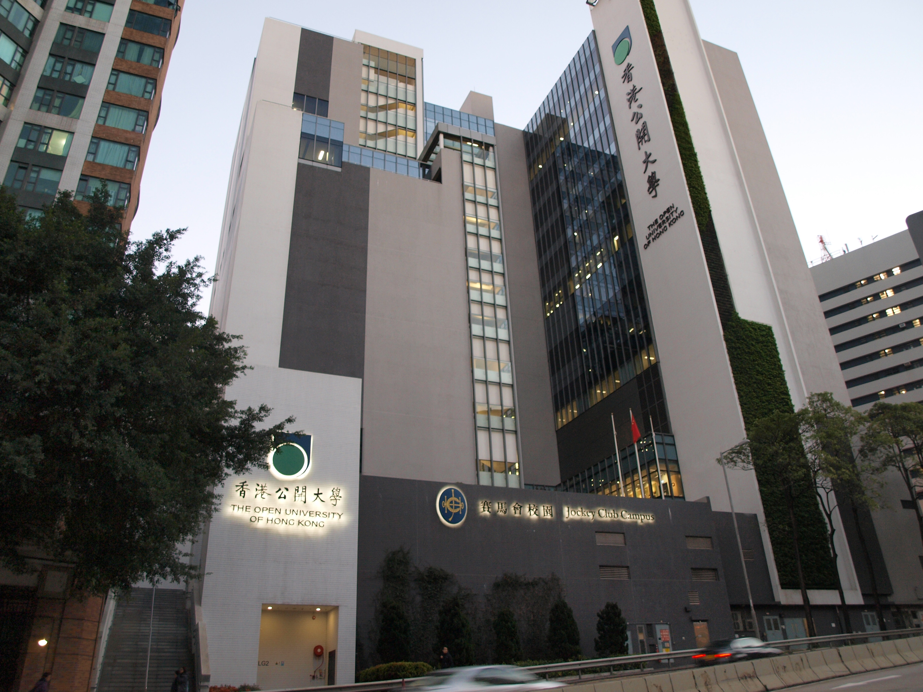 The Open University of Hong Kong - Jockey Club Campus viewed from Princess Margaret Road in the evening.